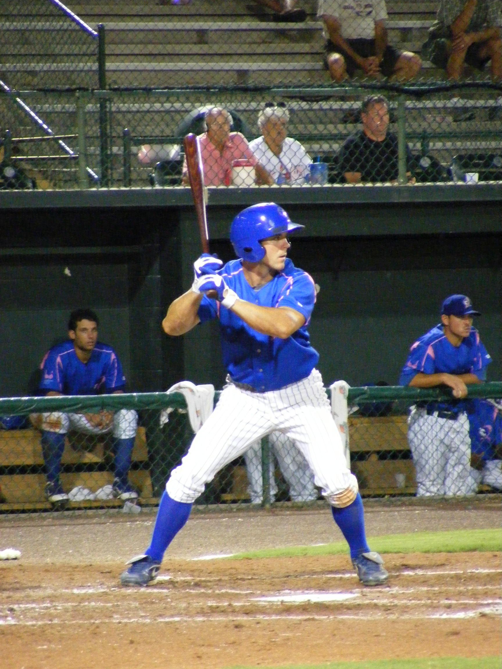 Matt Szczur (4) up to bat for the Daytona Cubs on August 31, 2011. Doubleheader vs. Tampa Yankees, at Jackie Robinson Ballpark, Daytona Beach, Florida. Photo credit: George Miziuk